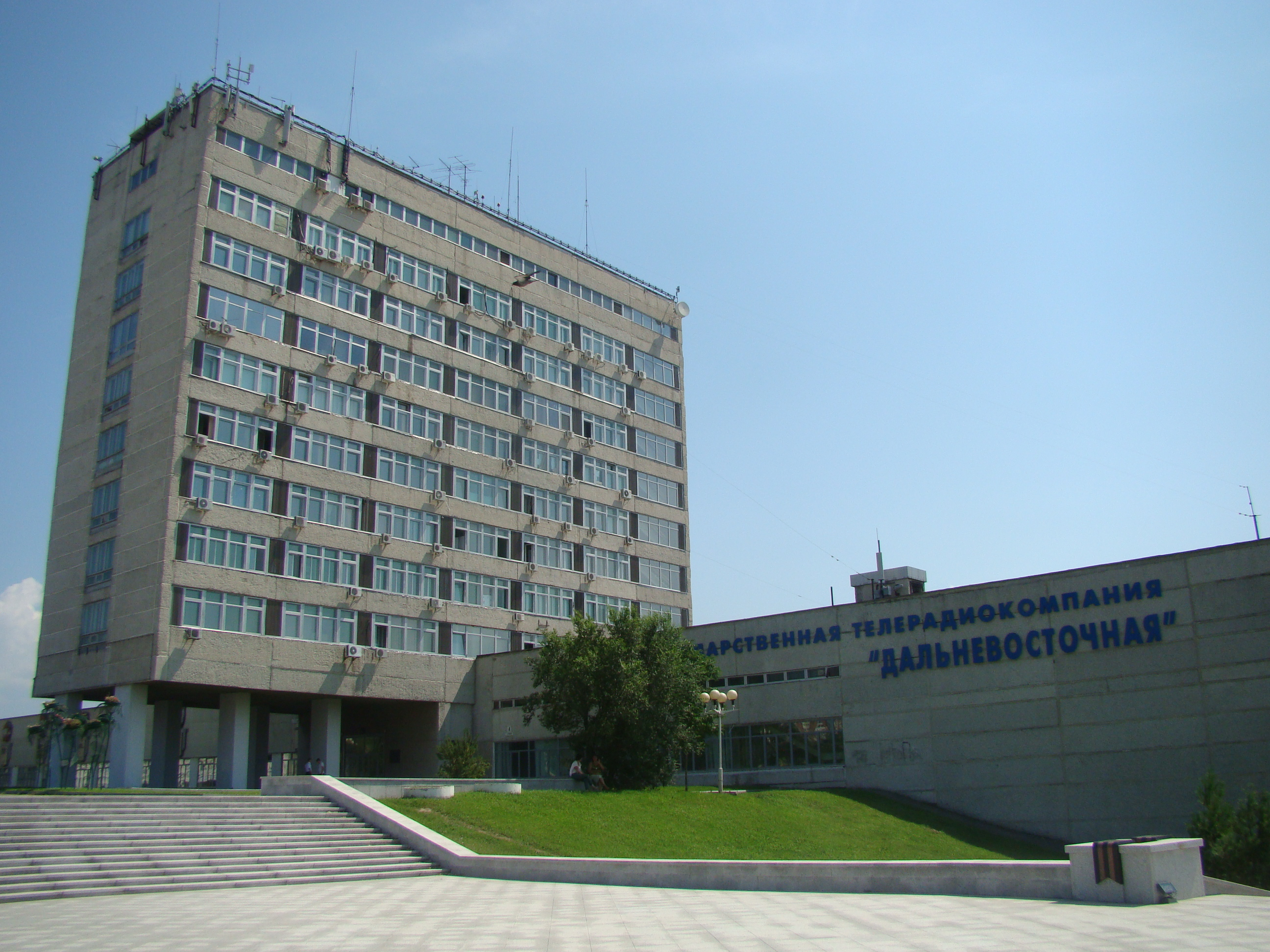 Russia. Khabarovsk. Federal State Unitary Enterprise "State Television and Radio Broadcasting Company "Dalnevostochny" 2015